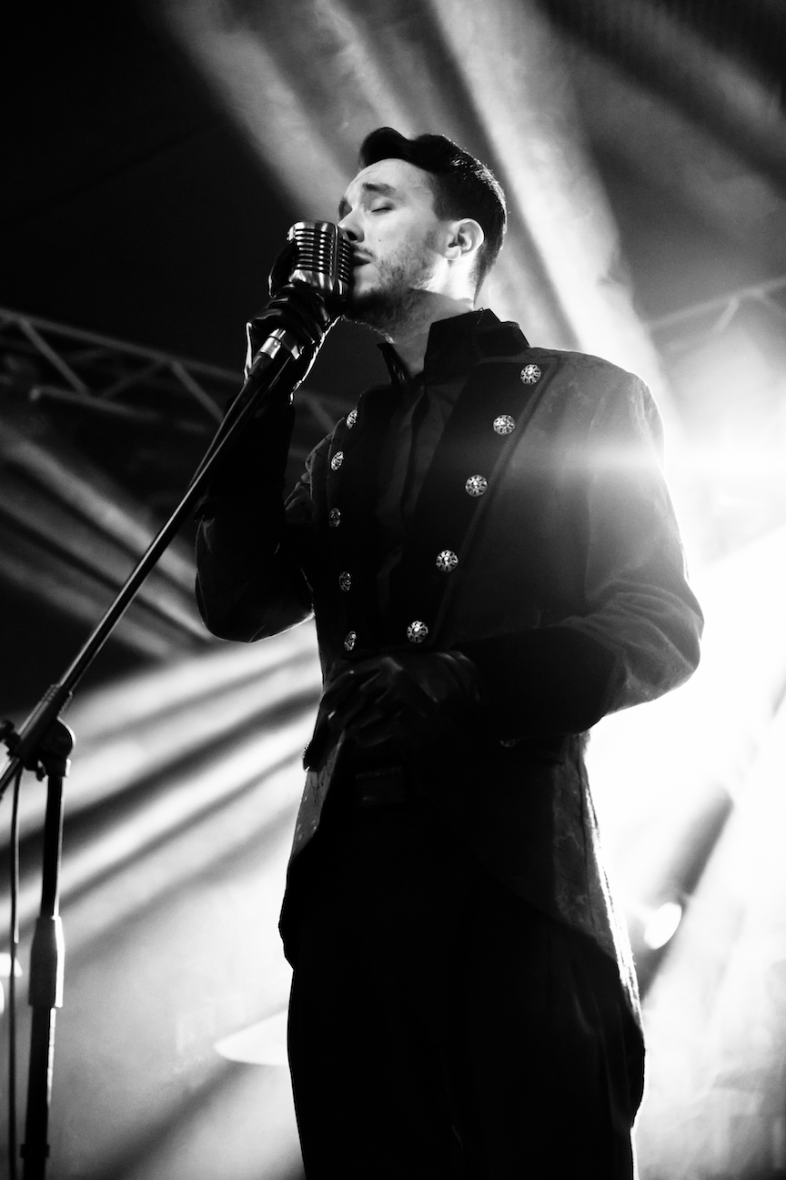 Izmir Ooze Venue Concert